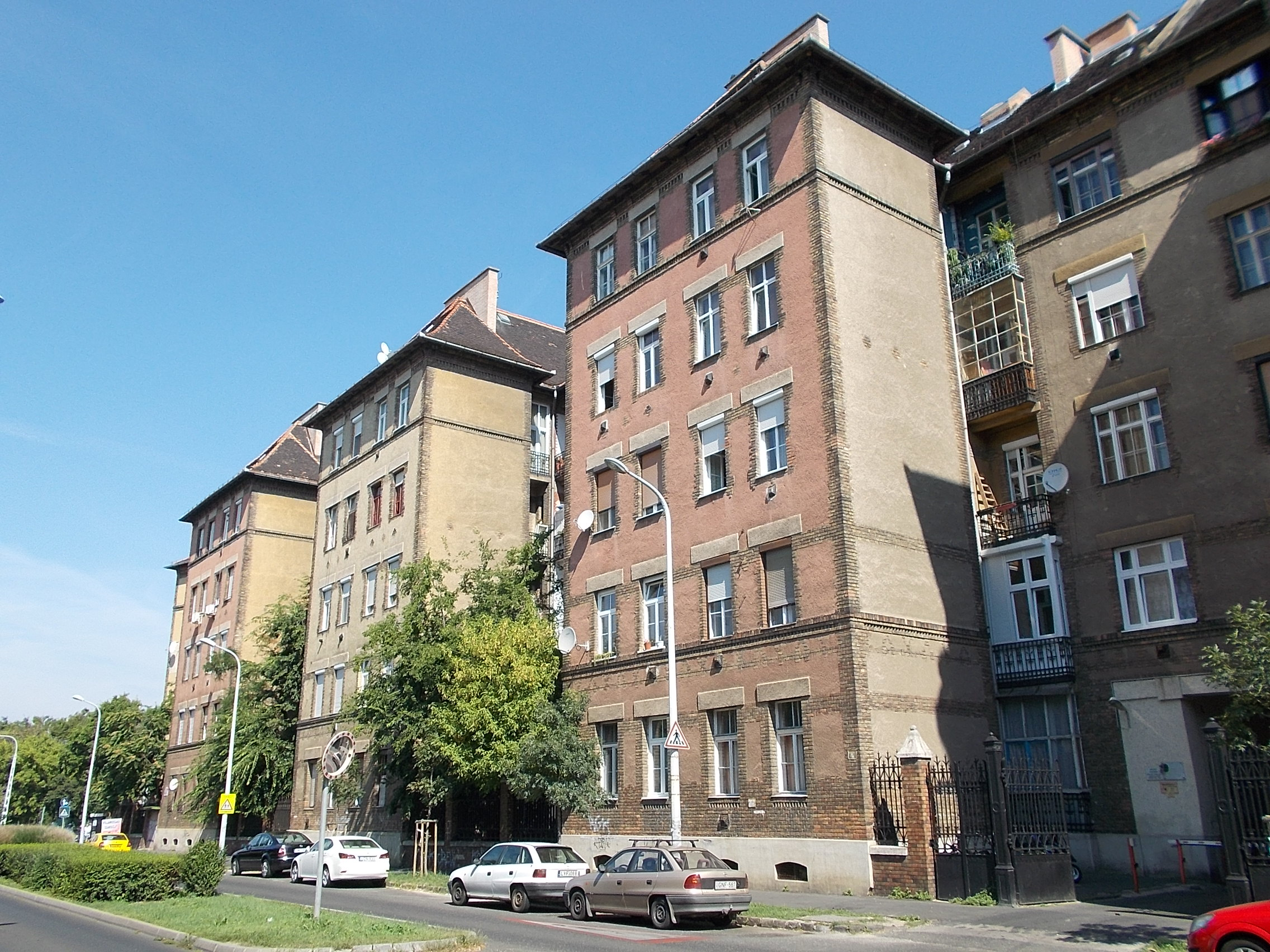 Ganz-Mávag worker housing estate (locals called: 'Kolónia' means Colony). - Vajda Péter Street, Ganz neighborhood, Budapest District VIII, Budapest.